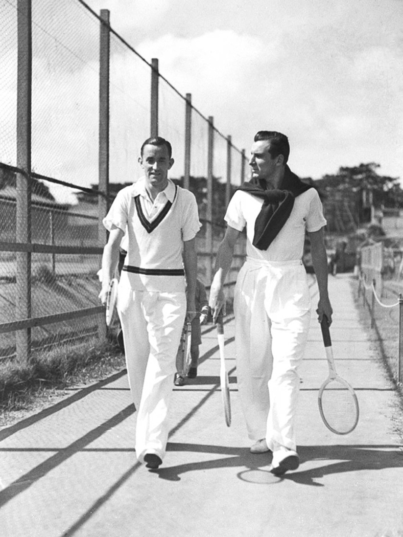 English tennis player Pat Hughes and Fred Perry at White City in Sydney Australia